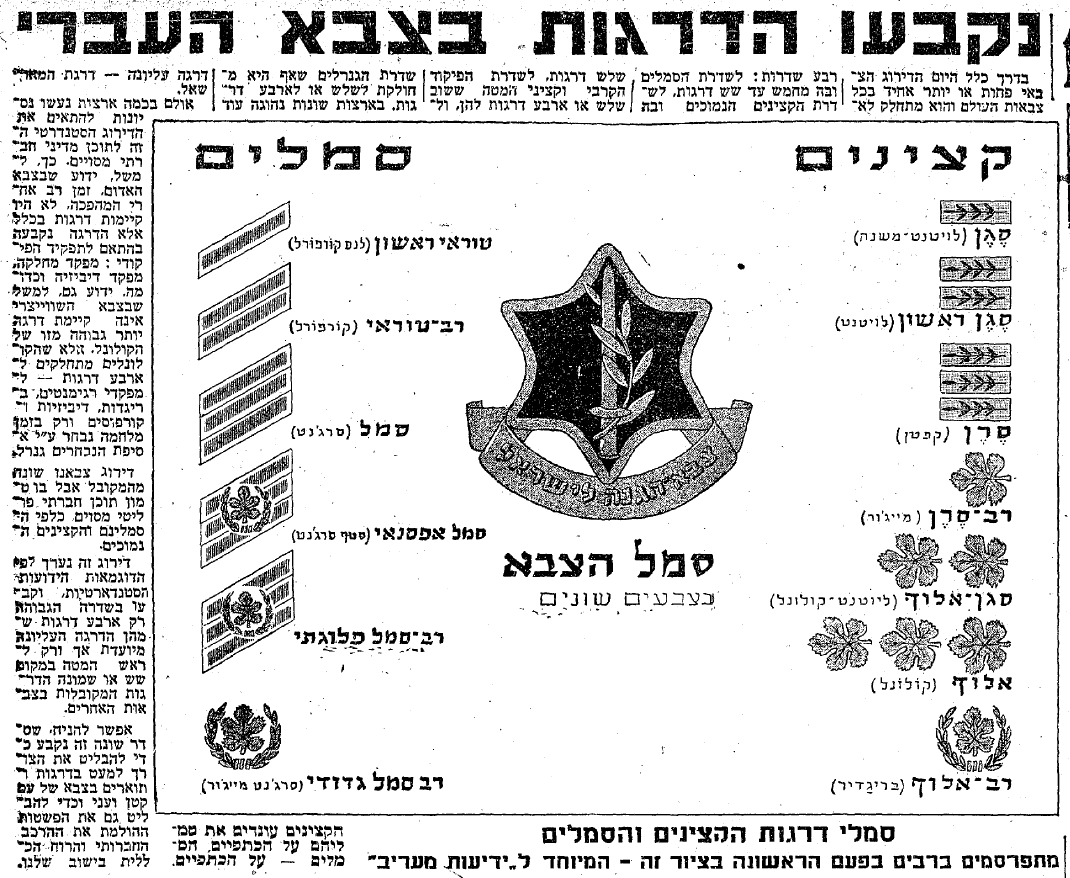 Ma'ariv, July 30, 1948